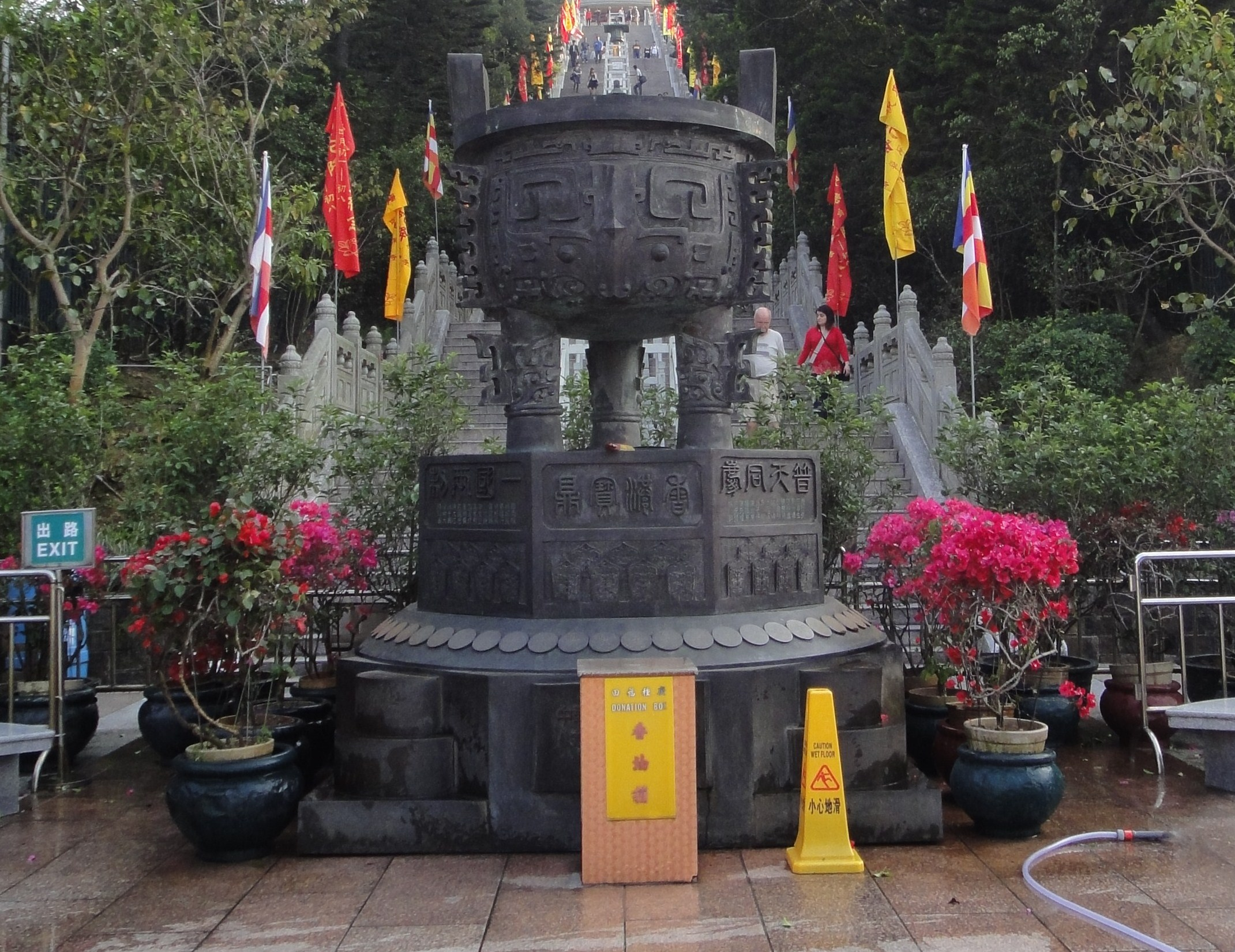 Tian Tan Buddha in Lantau Island